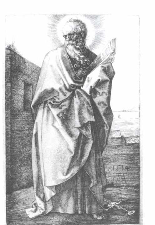 Paulus